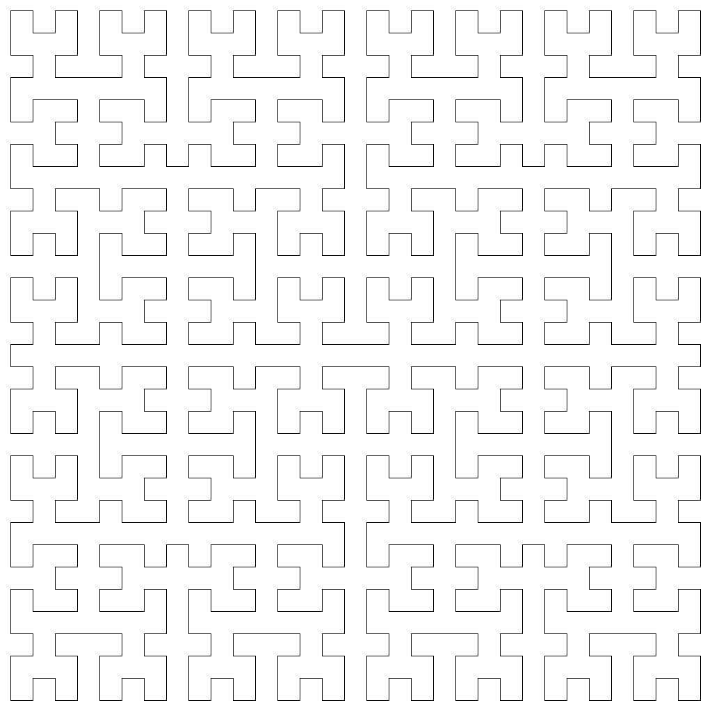 Hilbert Curve L4